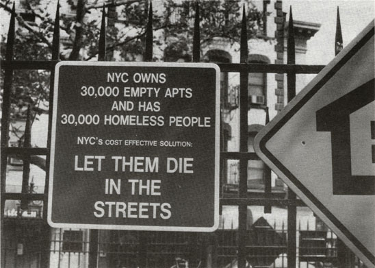 Photograph taken of street sign made by Gran Fury. "Let Them Die in the Streets." 1990. enamel signage.